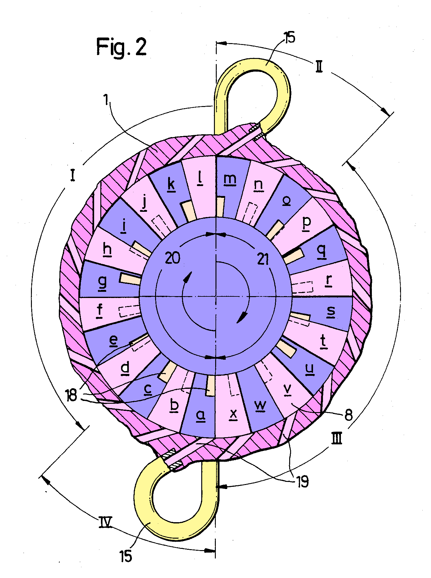 Schukey Engine